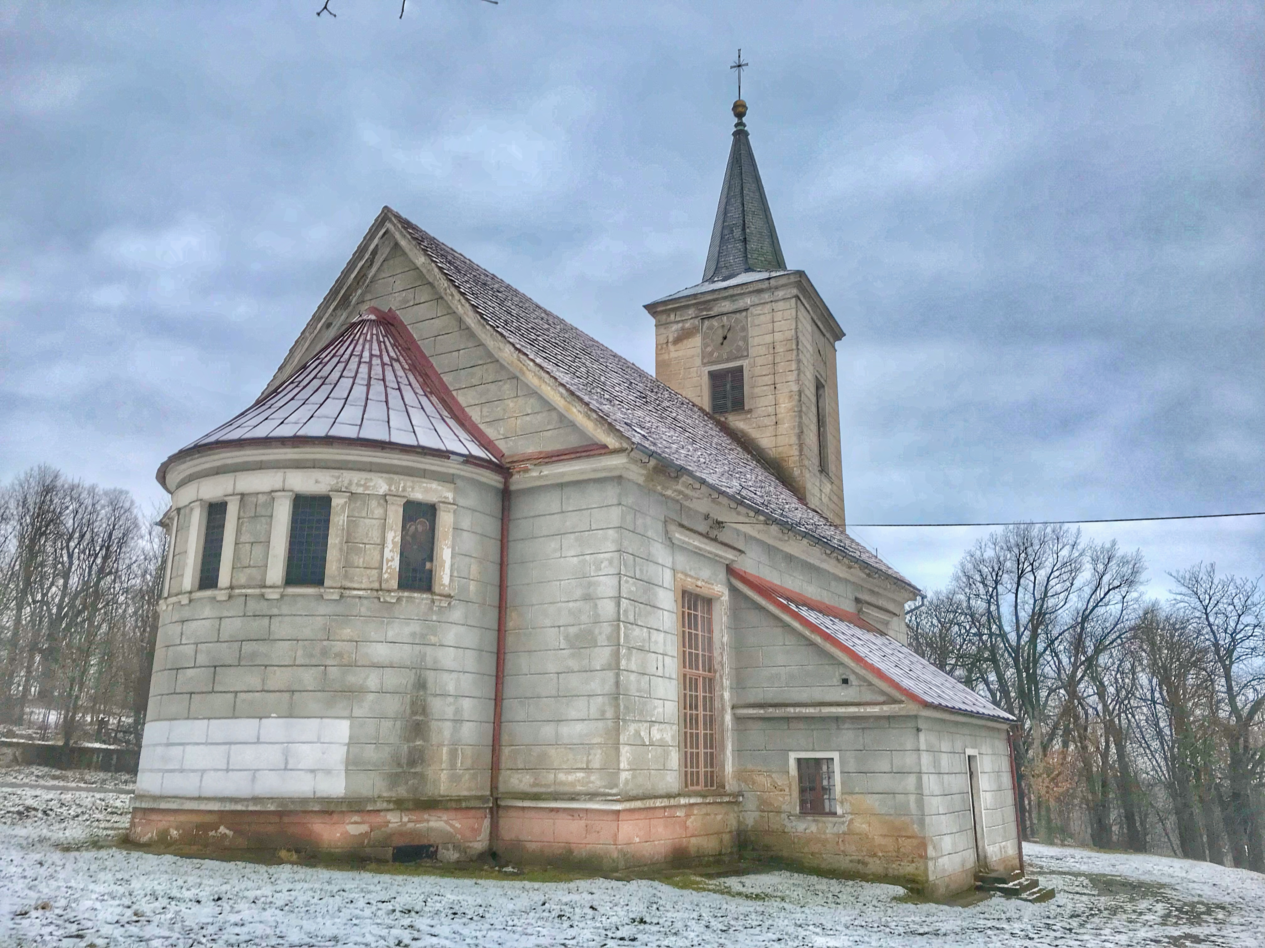 Church of Saint John the Baptist in Miedzianka